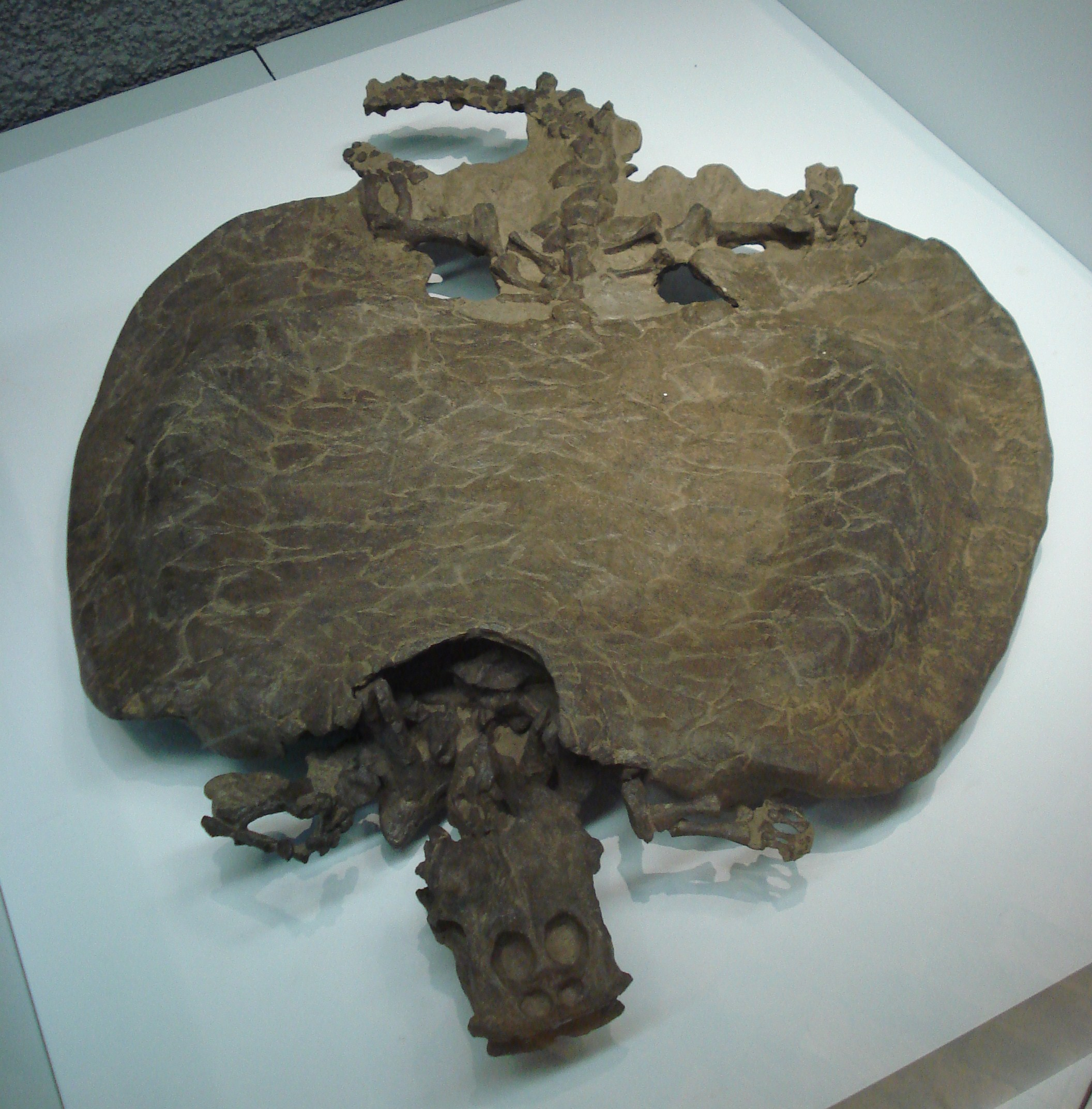 fossil of henodus